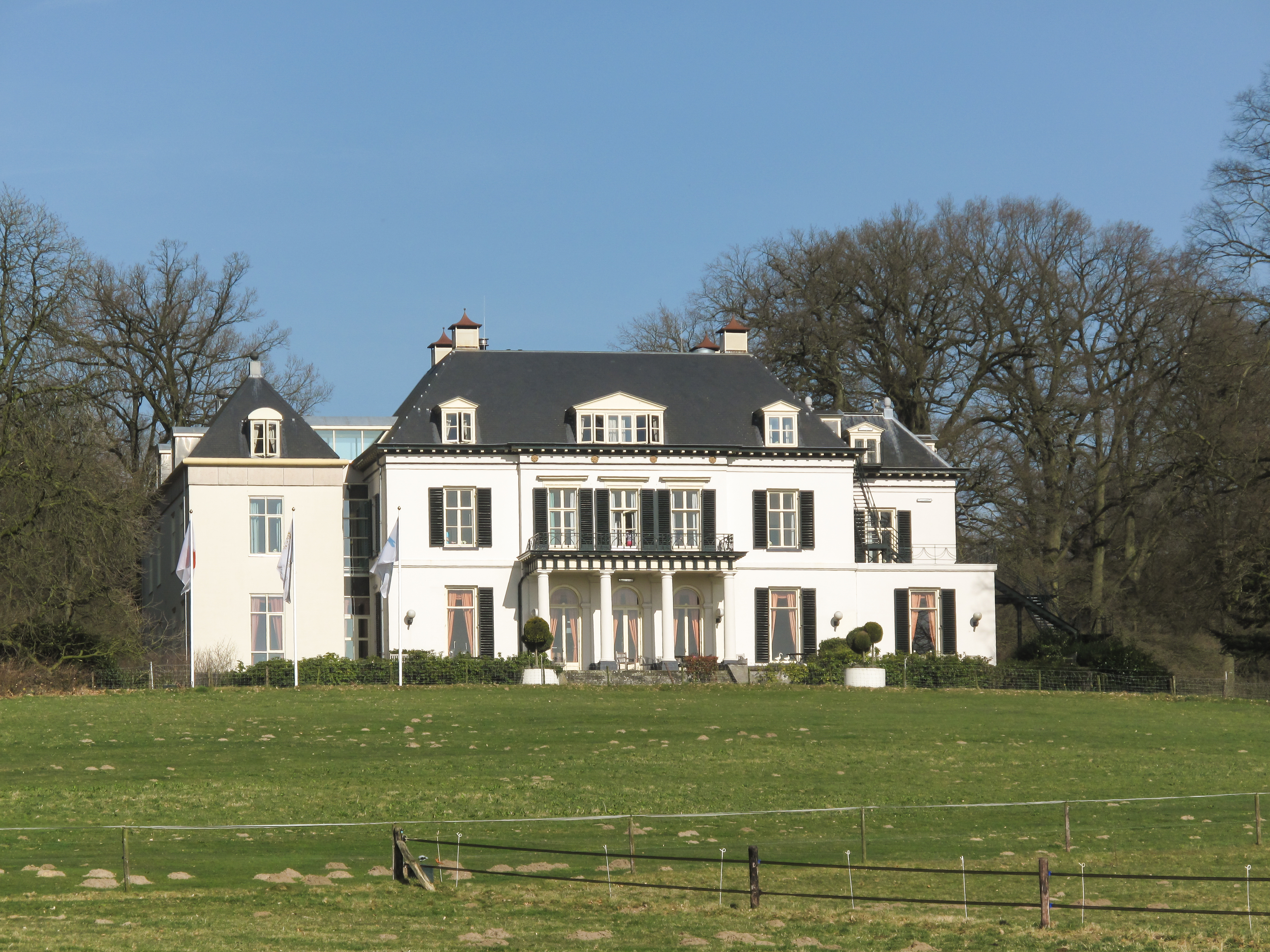 Rheden, country house de Valkenberg